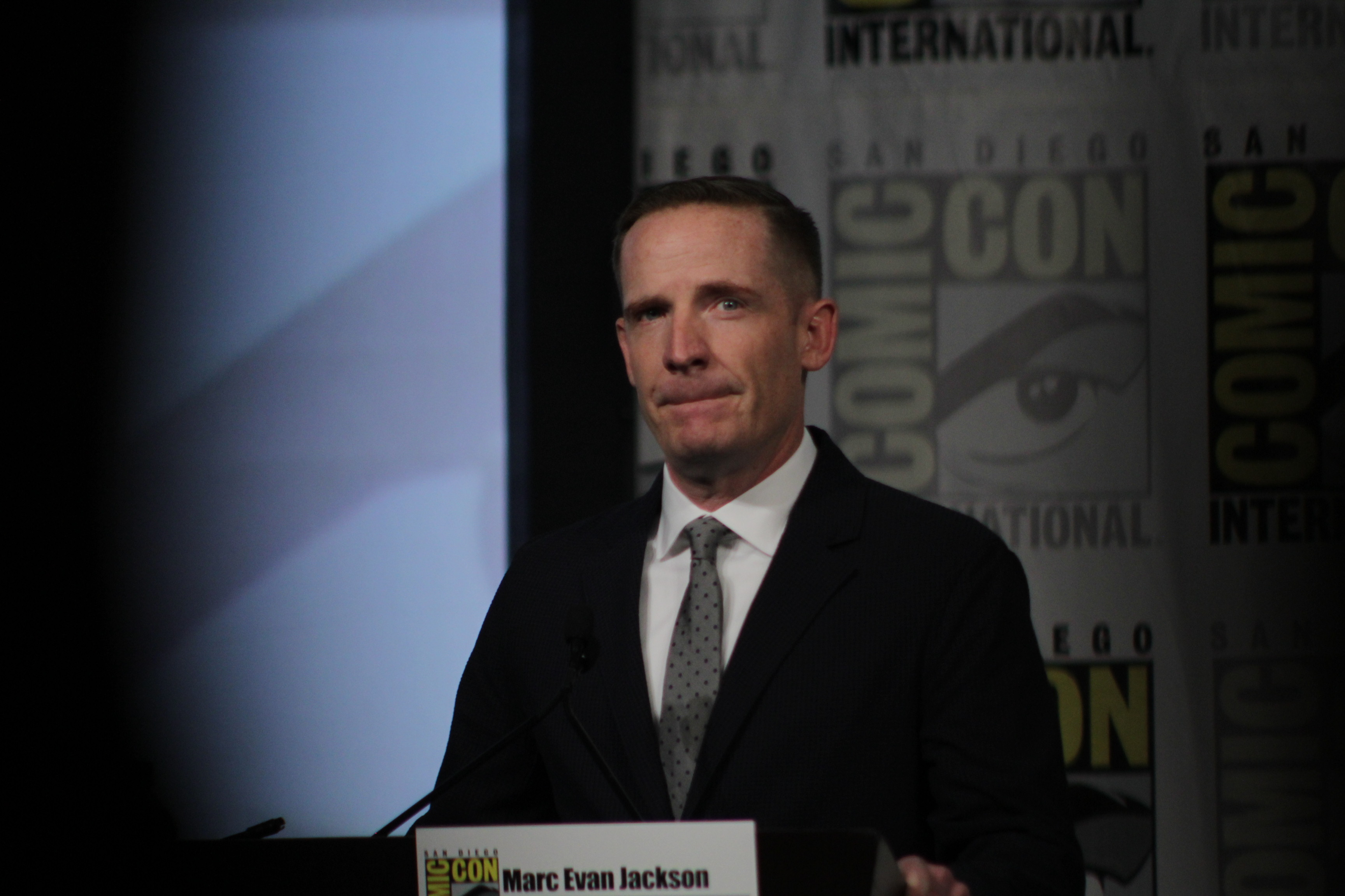 Cast and crew of NBC's 'The Good Place' discuss the show in the Indigo Ballroom at the San Diego Hilton Bayfront Hotel during San Diego Comic Con on July 20, 2019. Taken by Dominique Redfearn.